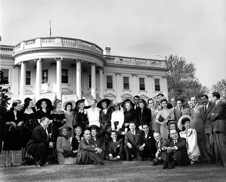 Photograph of Eleanor Roosevelt on the White House lawn with entertainers setting out on the Hollywood Victory Caravan, a national war bond tour for the US Department of the Treasury Seated, from left: Oliver Hardy, Joan Blondell, Charlotte Greenwood, Charles Boyer, Risë Stevens, Desi Arnaz, Frank McHugh, writer Matt Brooks, James Cagney, Pat O’Brien, Juanita Stark, Alma Carroll; (standing, from left) Merle Oberon, Eleanor Powell, Arleen Whelan, Marie McDonald, Fay McKenzie, Katharine Booth, Eleanor Roosevelt, Frances Gifford, Frances Langford, Elyse Knox, Cary Grant, Claudette Colbert, Bob Hope, Ray Middleton, Joan Bennett, Bert Lahr, director Mark Sandrich, writer Jack Rose, Stan Laurel, Jerry Colonna and Groucho Marx.